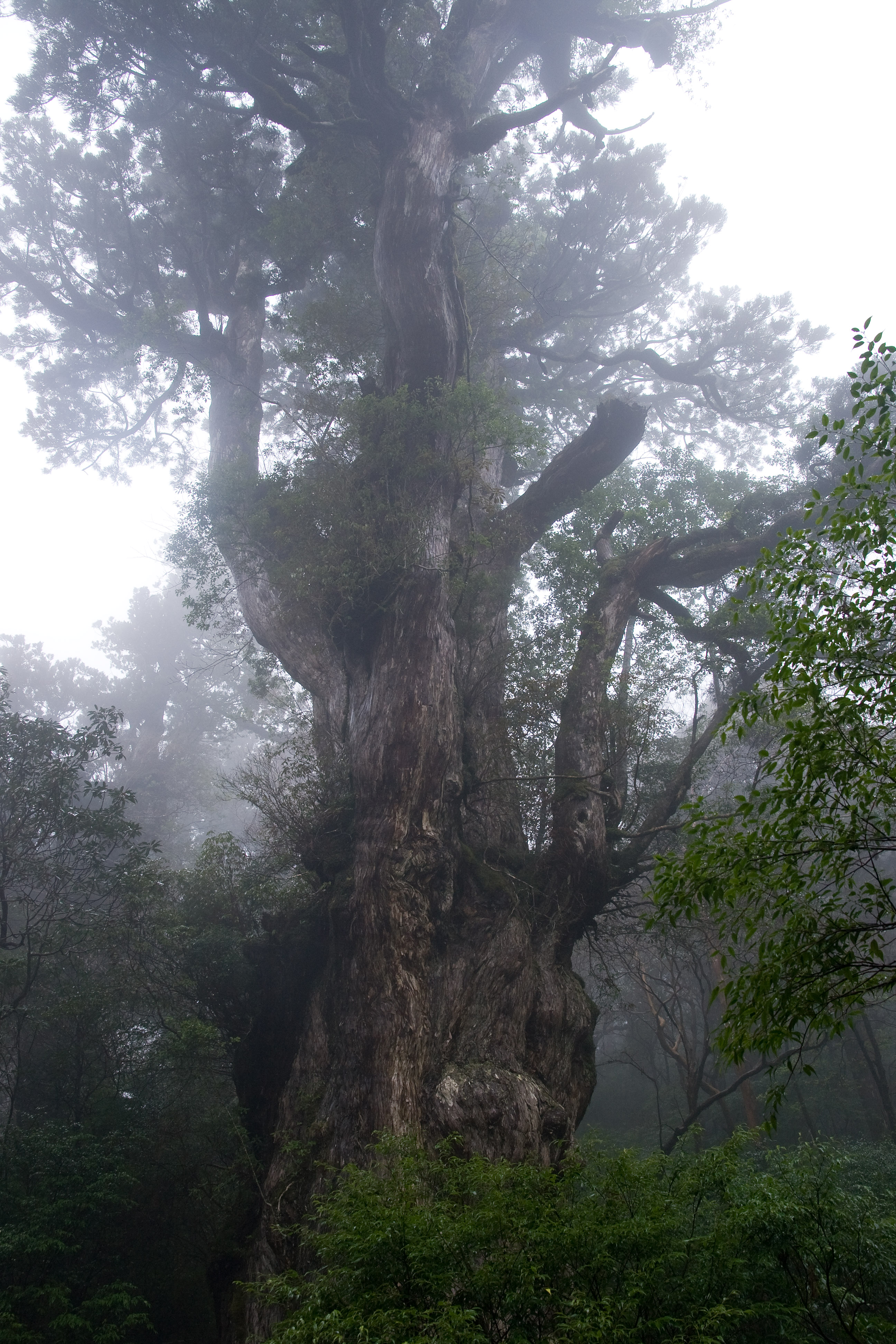 Jōmon Sugi in Yakushima, Kagoshima Pref., Japan.